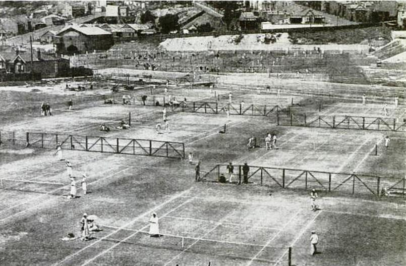 Photograph of the White City Tennis Club in Sydney Australia, forerunner of the White City Stadium